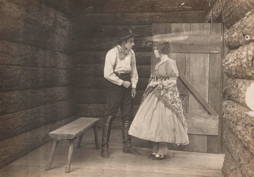 Frank Bennett and Dorothy Gish in The Little Yank (1917) - original image cropped (see source).